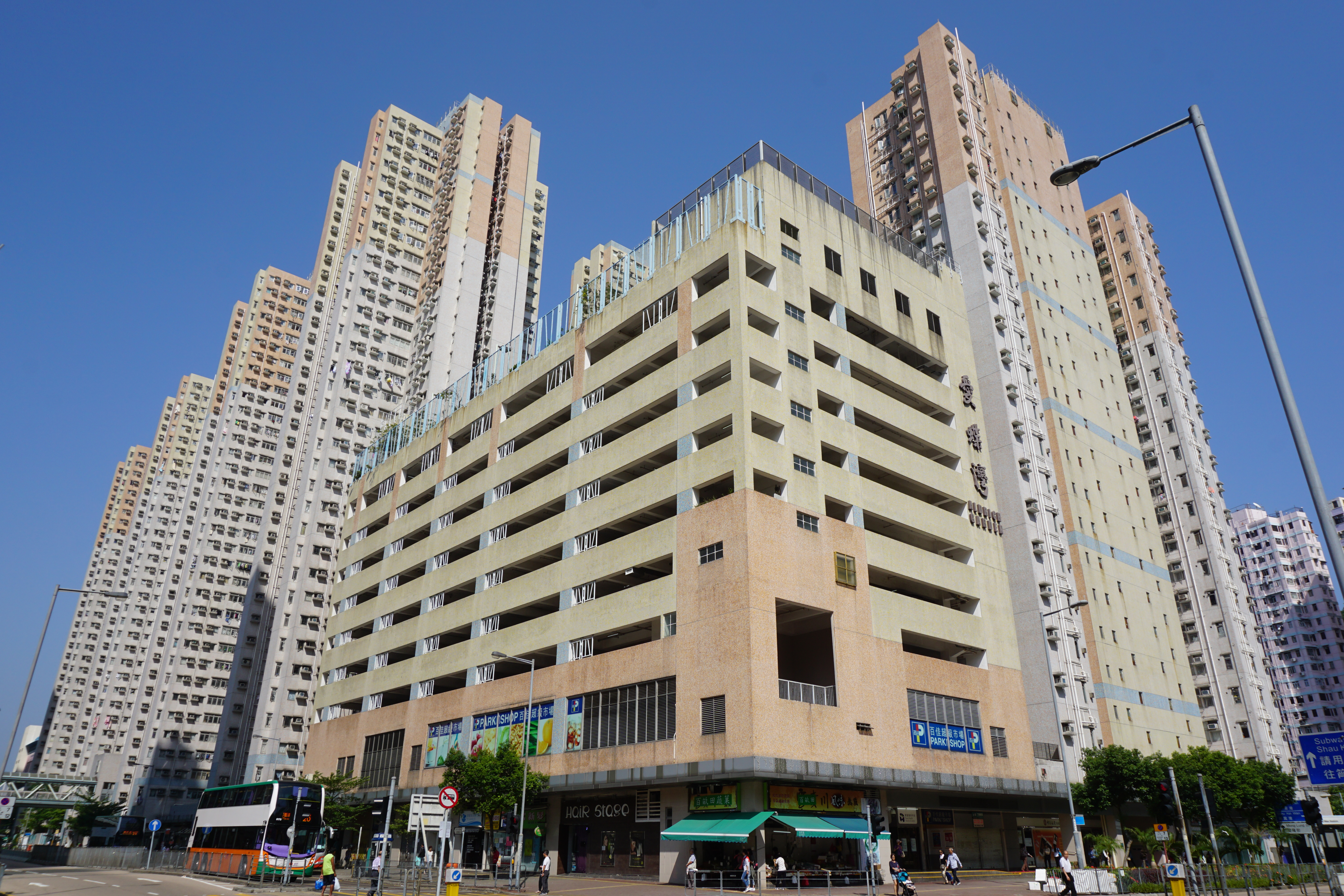 Aldrich Garden in Shau Kei Wan, Hong Kong.